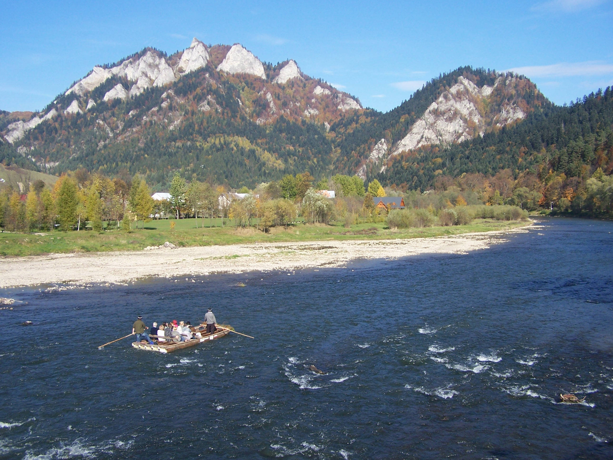 Trzy Korony, Facimiech, rafting on the Dunajec River (Pieniny)